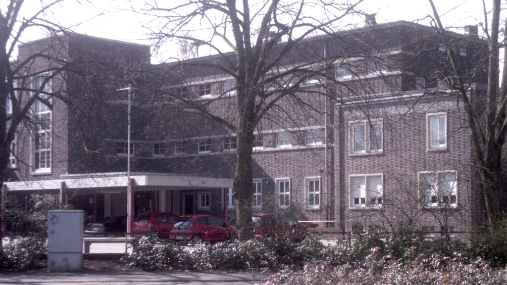 School, Hamm, Viersen, Germany